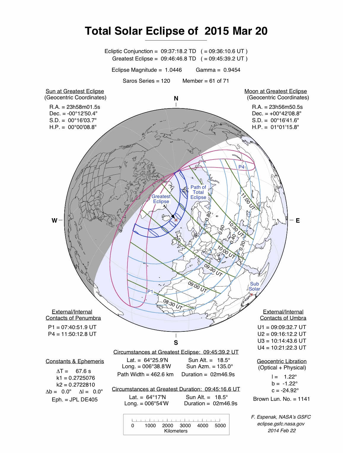 Paths of Solar Eclipse Mar 2015